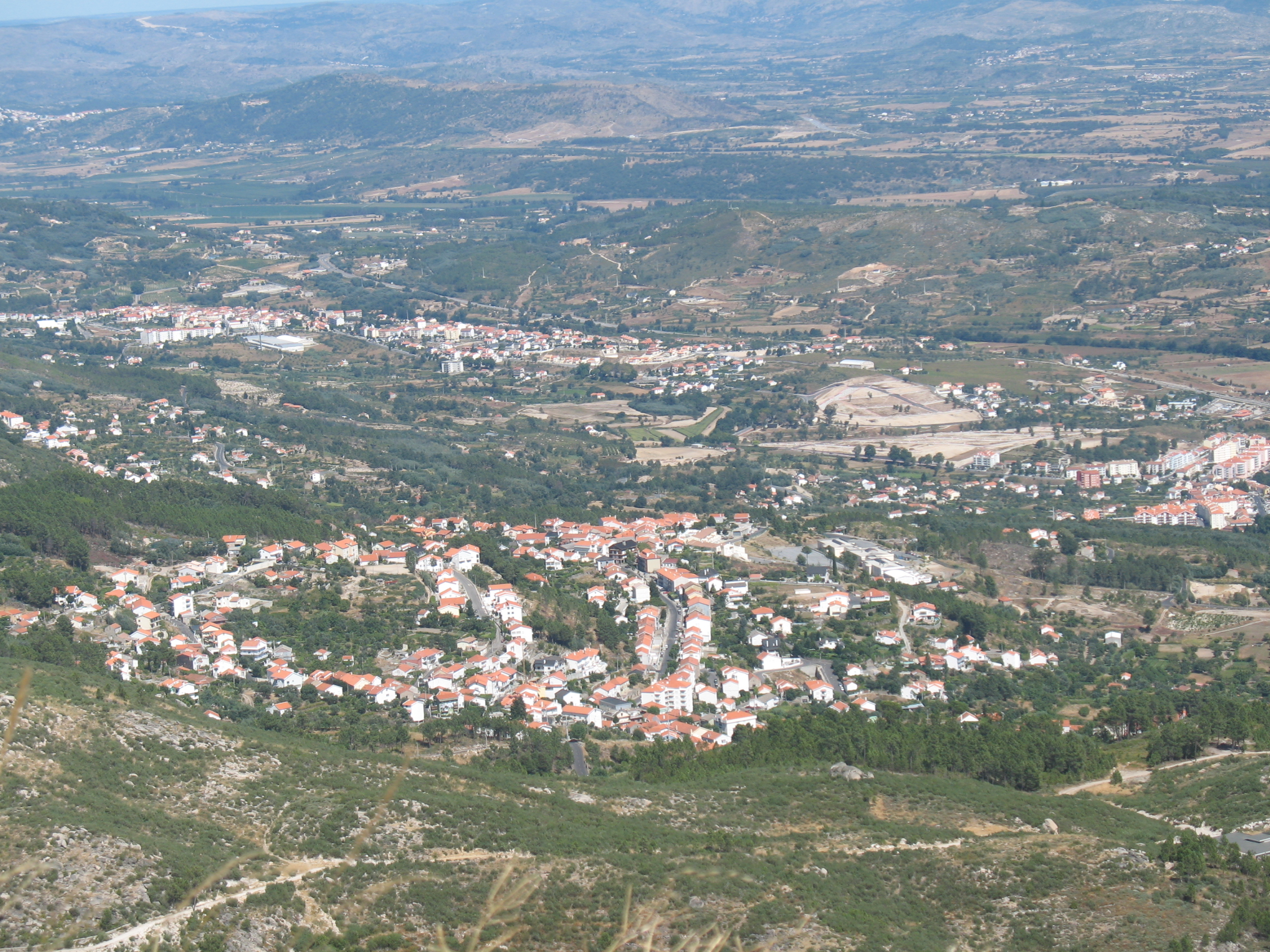 Covilha, view from Serra da Estrela